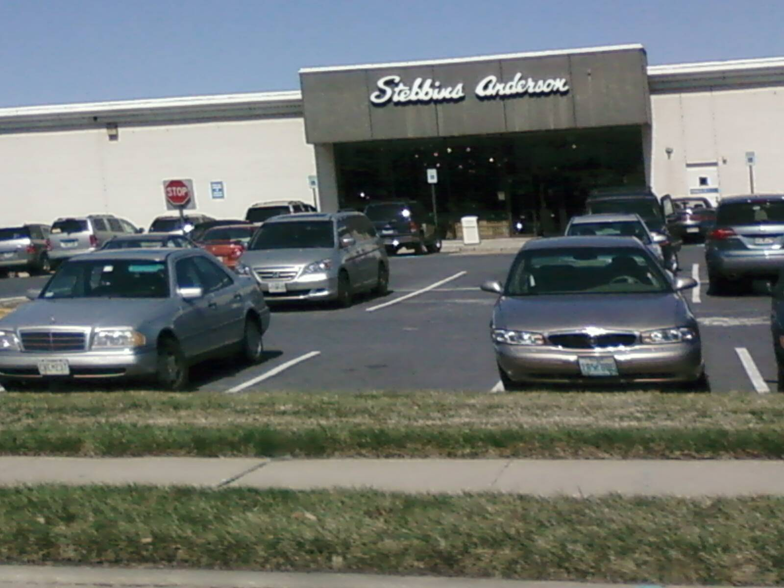 The Shops at Kenilworth from street